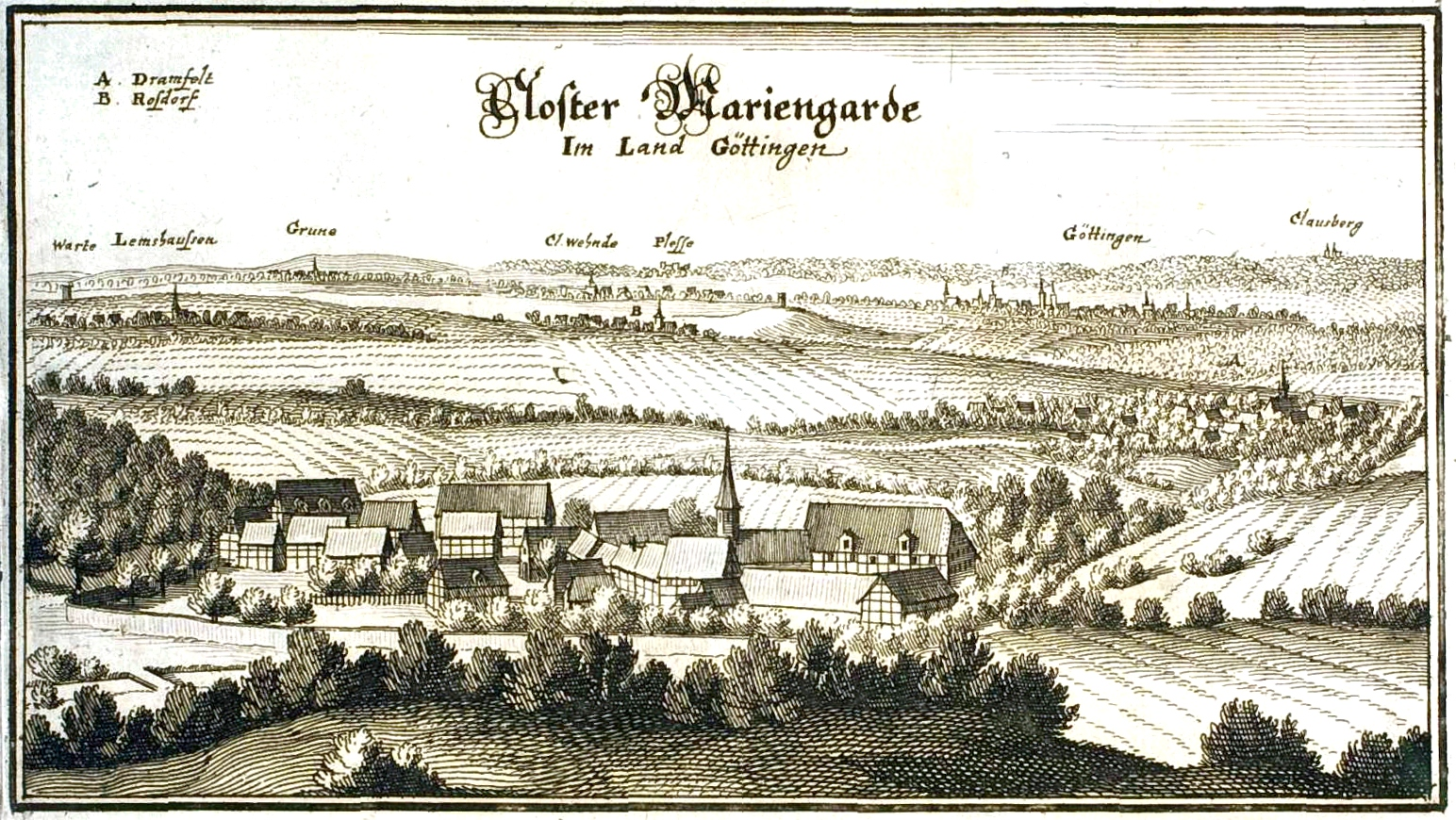 Topographiaund Eigentliche Beschreibung Der Vornembsten Stäte, Schlösser auch anderer Plätze und Örter in denen Hertzogthümer(n) Braunschweig und Lüneburg, und denen dazu gehörende(n) Grafschafften Herrschafften und Landen